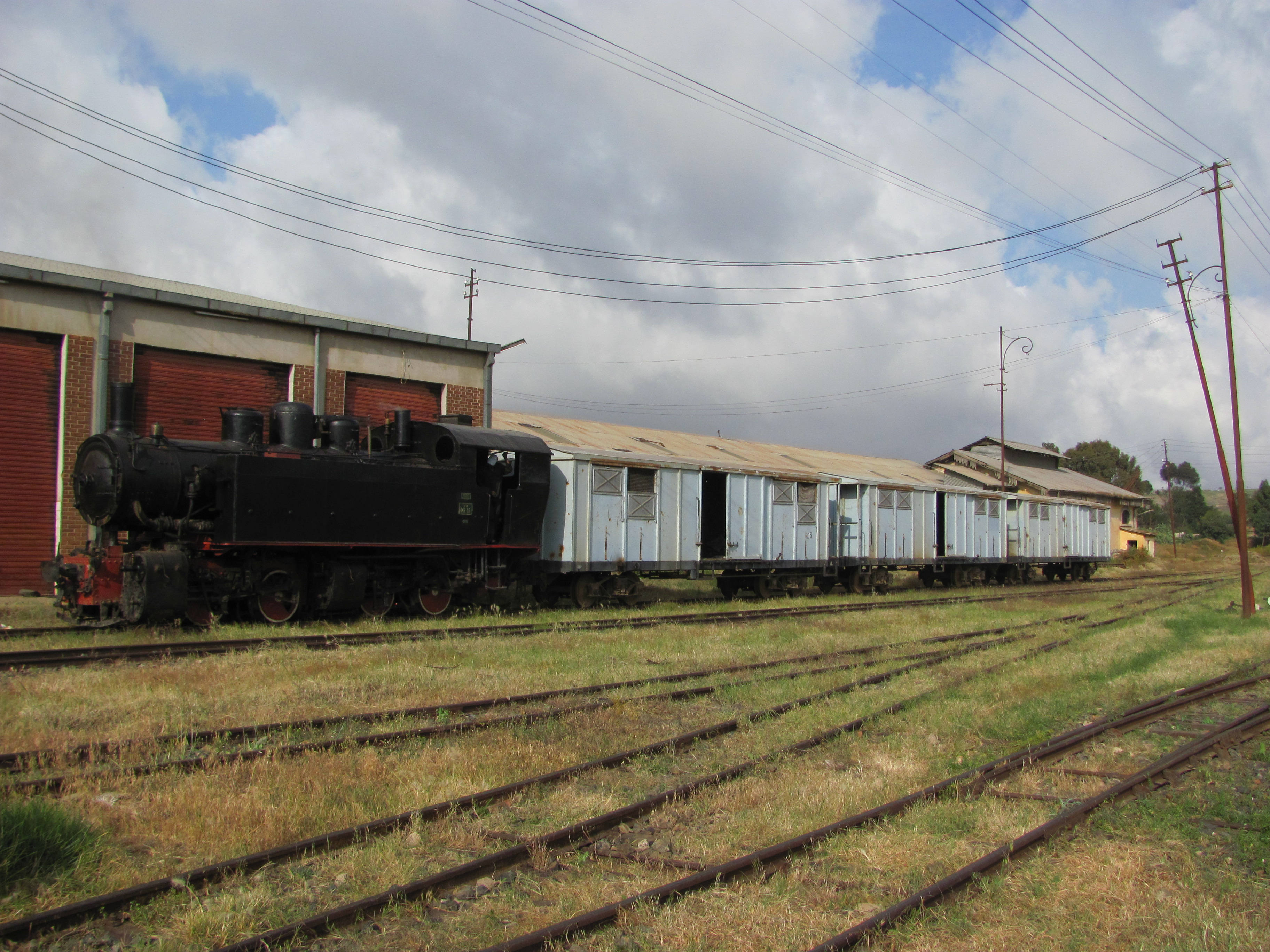 Cargo train entering Asmara station